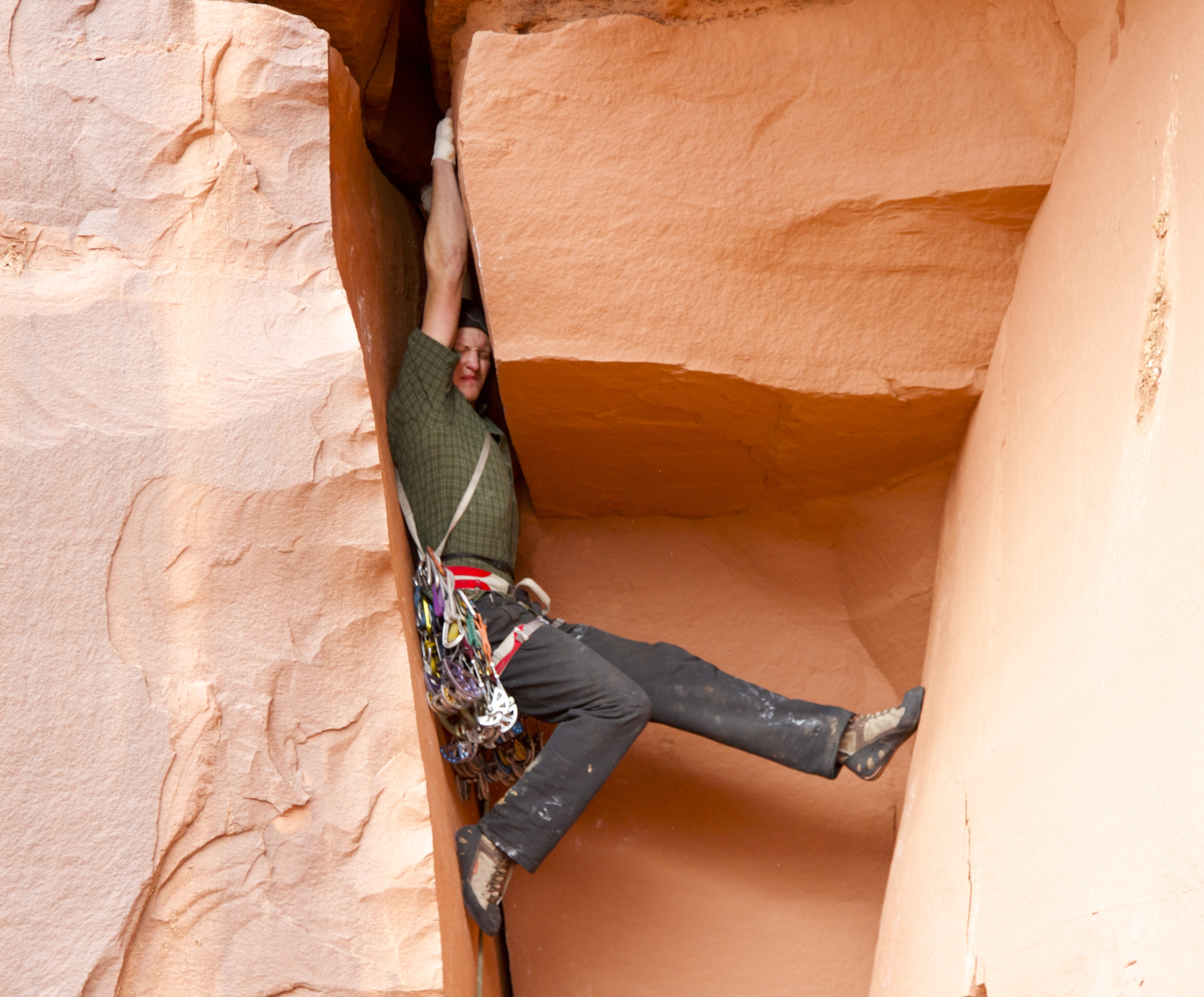 Climbing at Indian Creek climbing area in in Canyonlands near Moab, Utah